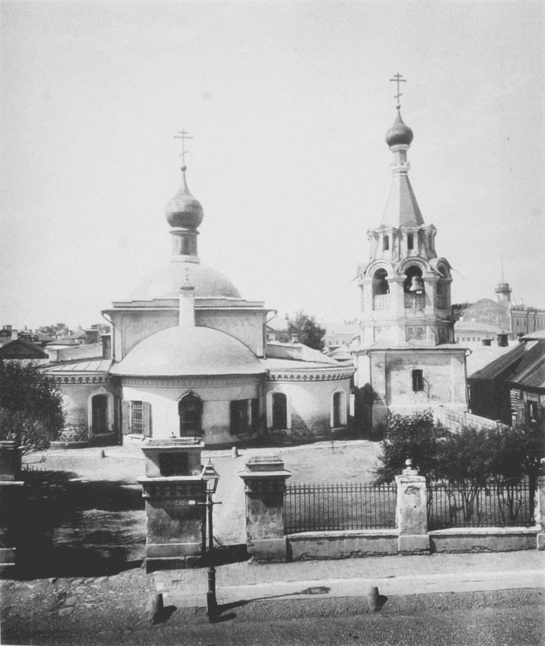 The Church of Theodore the Studite at Nikitsky Vorota Place in Moscow. Photo 1882.